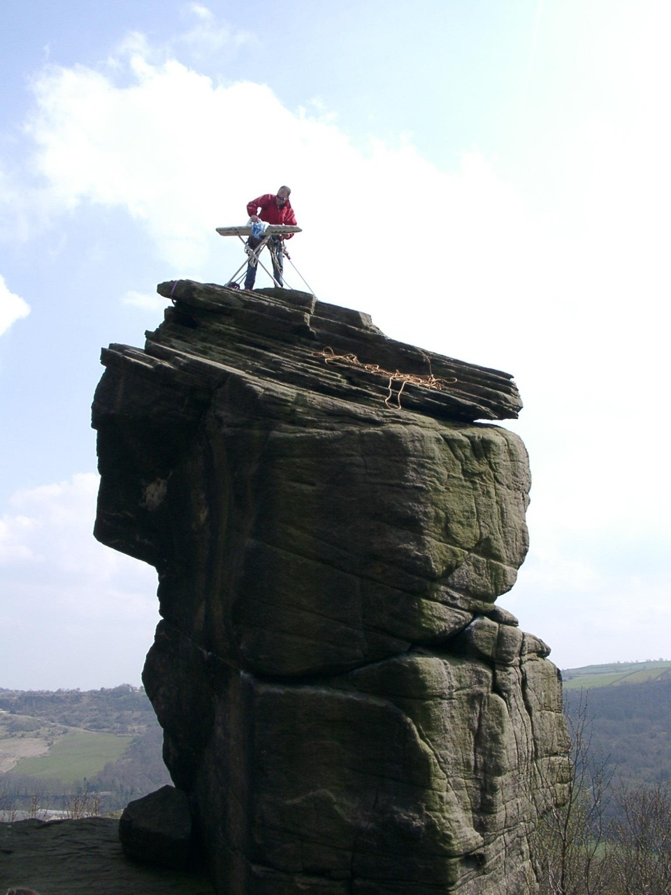 Extreme Ironing on Rivelin Needle, Sheffield, UK